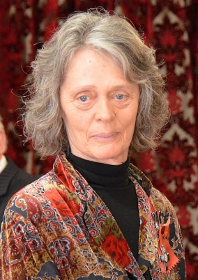 Sarah Delahunty, after her investiture as MNZN, for services to theatre, at Government House, Wellington, on 11 September 2015.